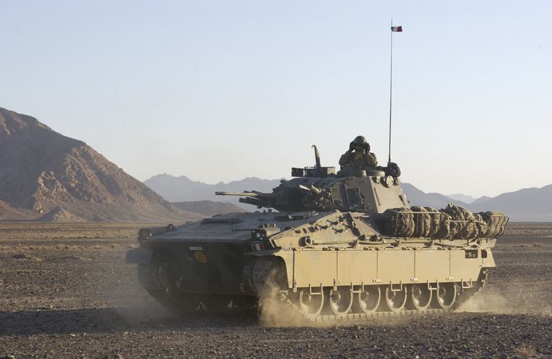 Italian Army Dardo IFV on patrol in Afghanistan.